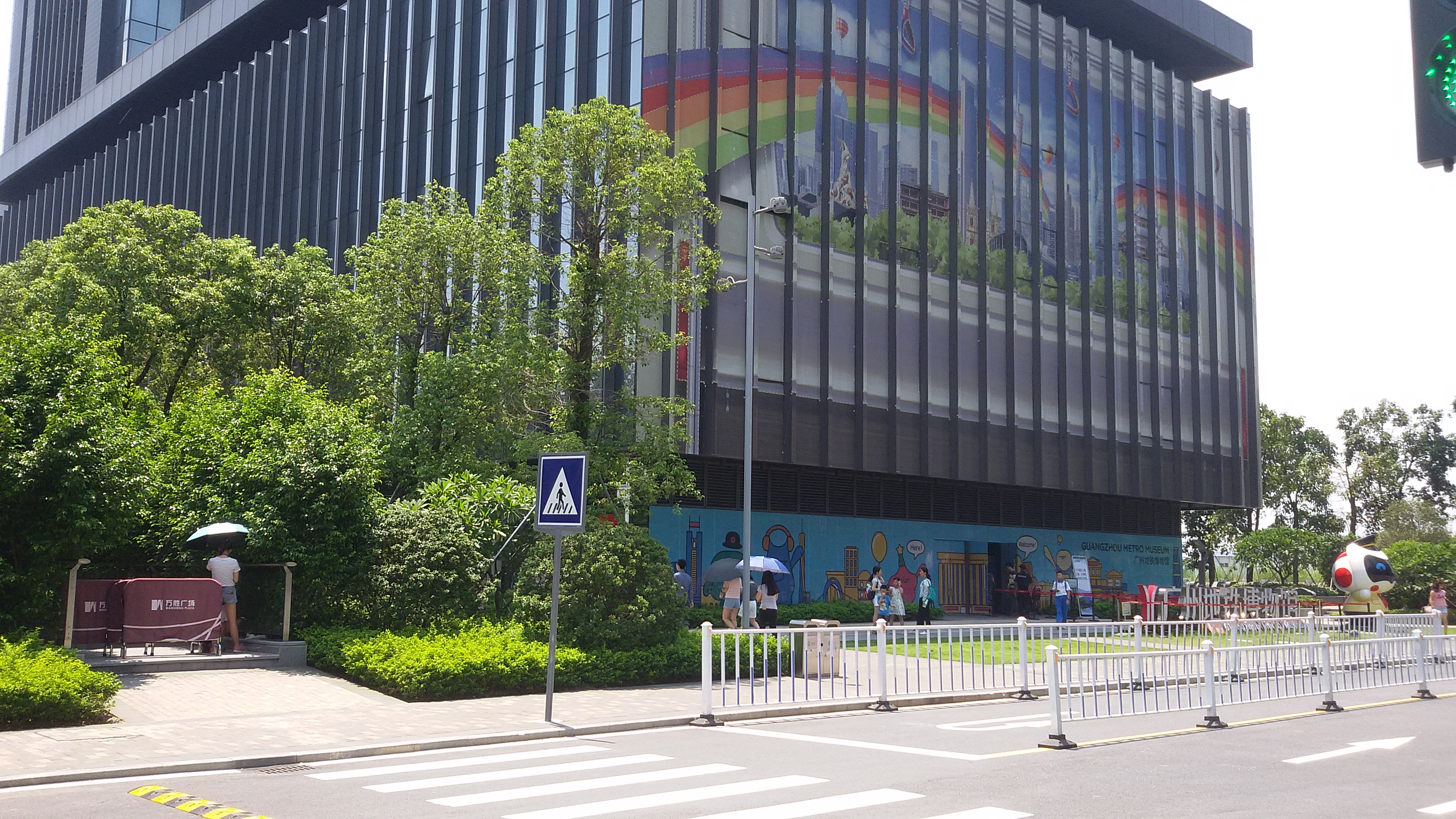 Guangzhou Metro Museum